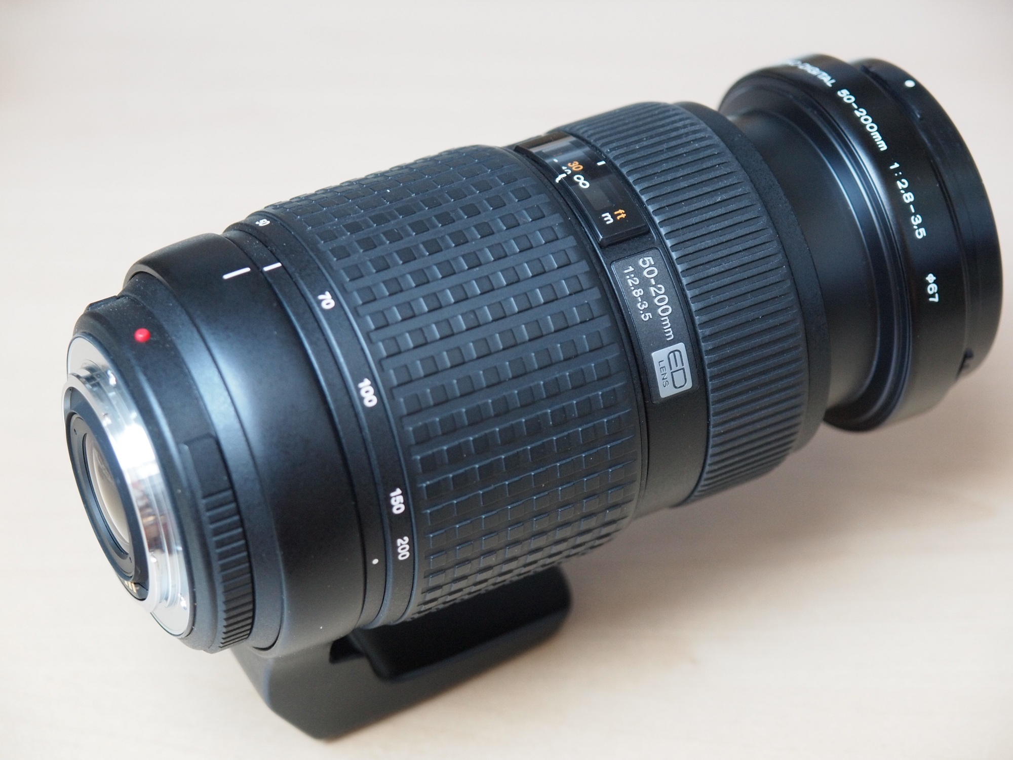 Olympus E system Four Thirds lens 2.8–3.5/50–200